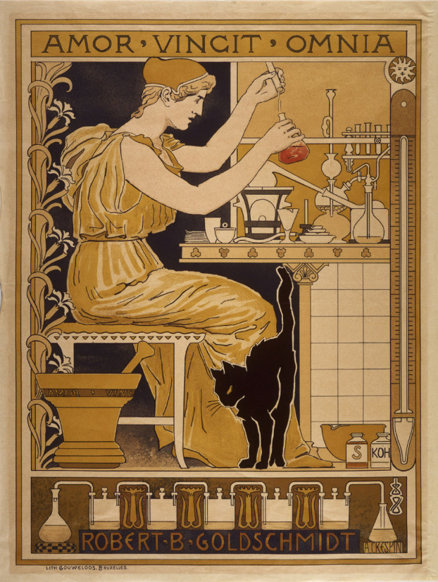 Robert Goldschmidt in 1895, lithographie by Adolphe Crespin + Jean Gouweloos, Philadelphia Museum of Art